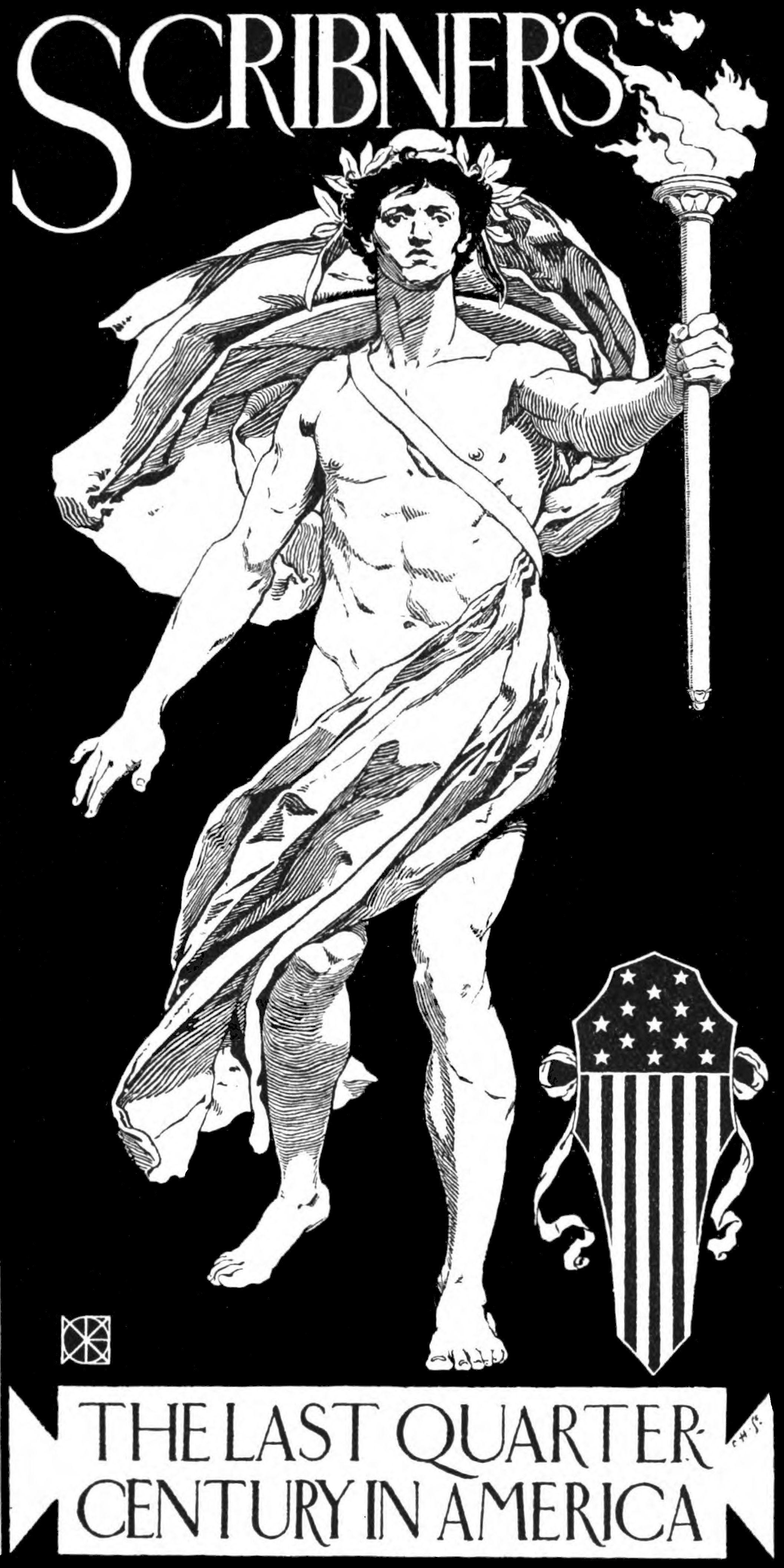 poster by kenyon cox for scribner's 'last century in america'